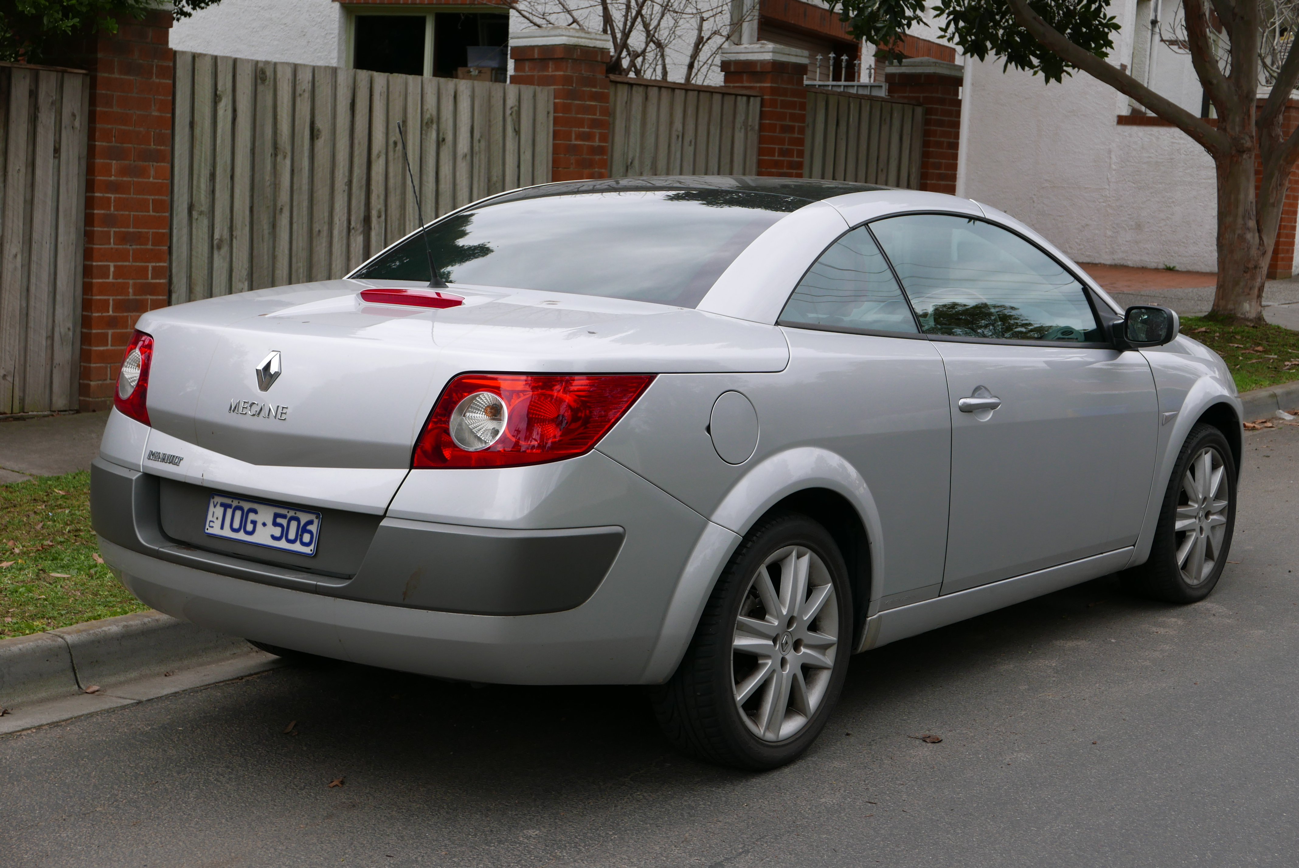 2005 Renault Mégane (X84) Dynamic LX convertible. Photographed in Kew East, Victoria, Australia. Vehicle registration enquiry results Jurisdiction Victoria Registration TOG506 Chassis code VF1EM050650630324 Engine code C066450 Compliance date 2005-05 Year of manufacture 2005